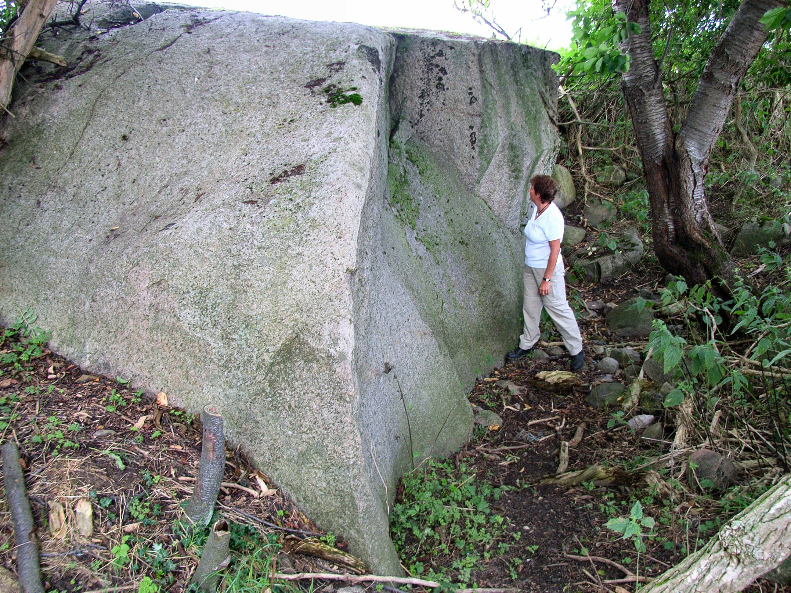 Glacial erratic near Nardevitz on island Rügen